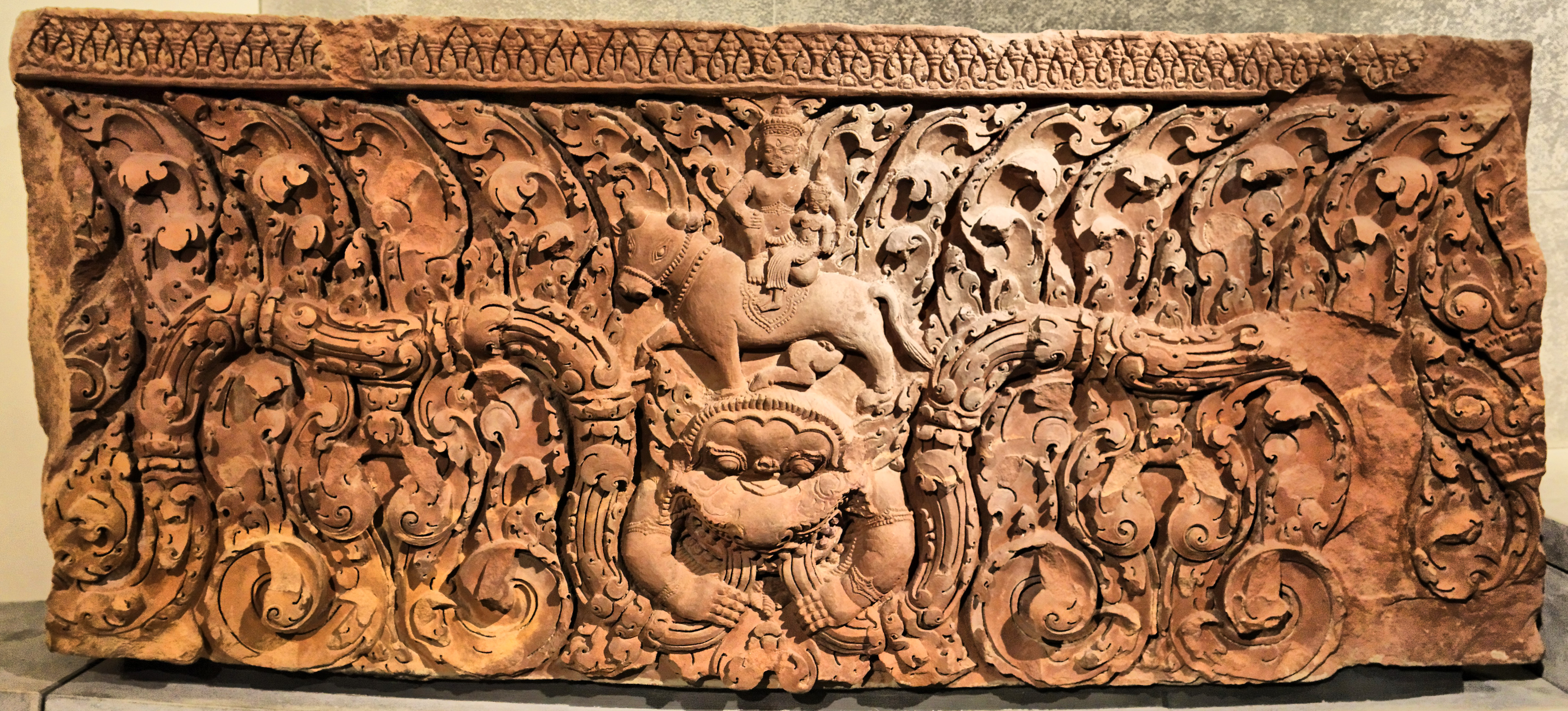 Khmer lintel, Musée Guimet, Paris